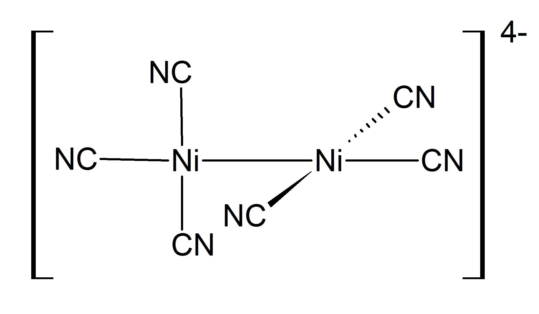 Structure of hexacyanodinickelate(I) ion